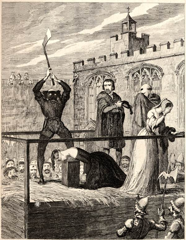 "The Execution of Jane". "The Tower of London", by William Harrison Ainsworth (1840)